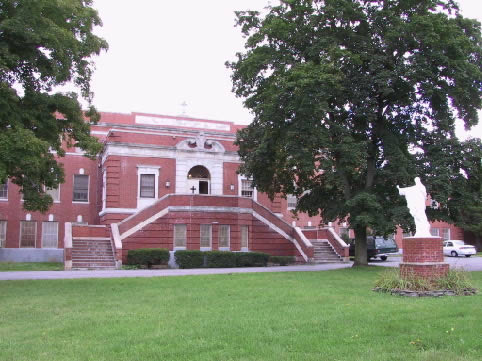 Image of Saint Cabrini Home's administration building, circa 2005, digital camera, auto setting, taken by author